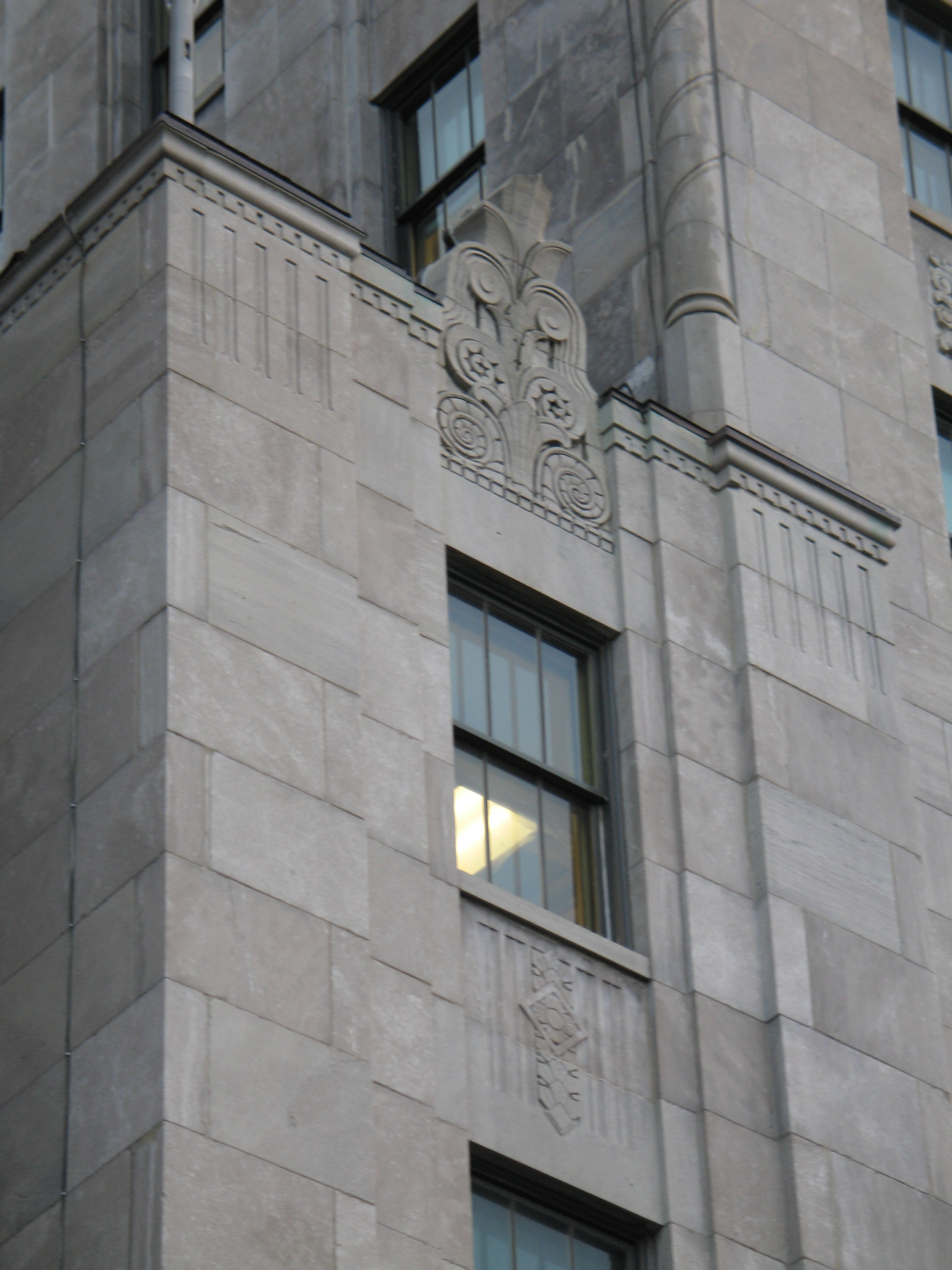 Details from the façade of the Price Building, in the old city of Quebec City. The building is the head office of the Caisse de dépôt et placement du Québec and the official residence of the Premier of Québec